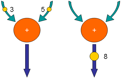 Firing rule of a dataflow computer type node.